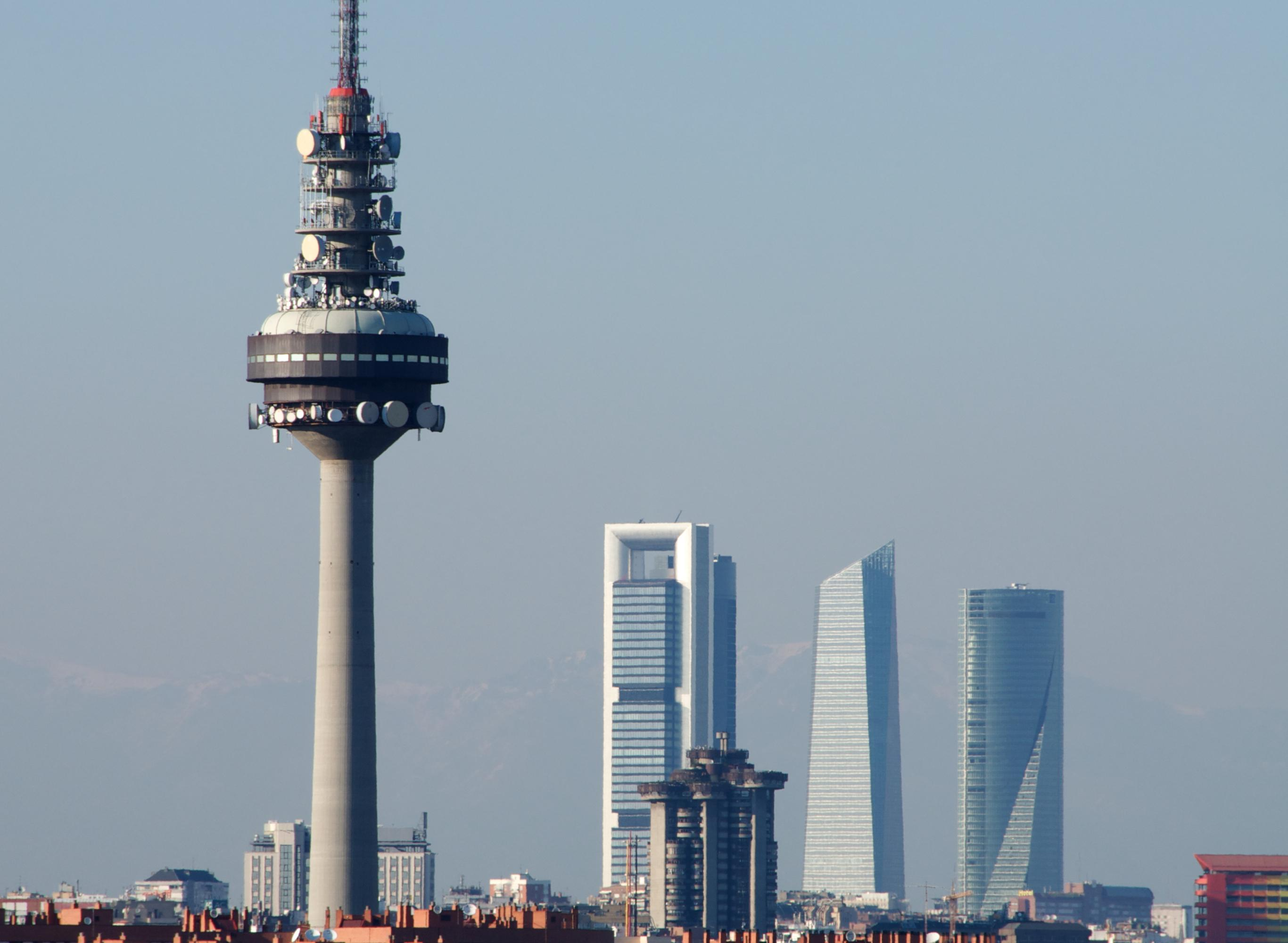 Madrid skyline